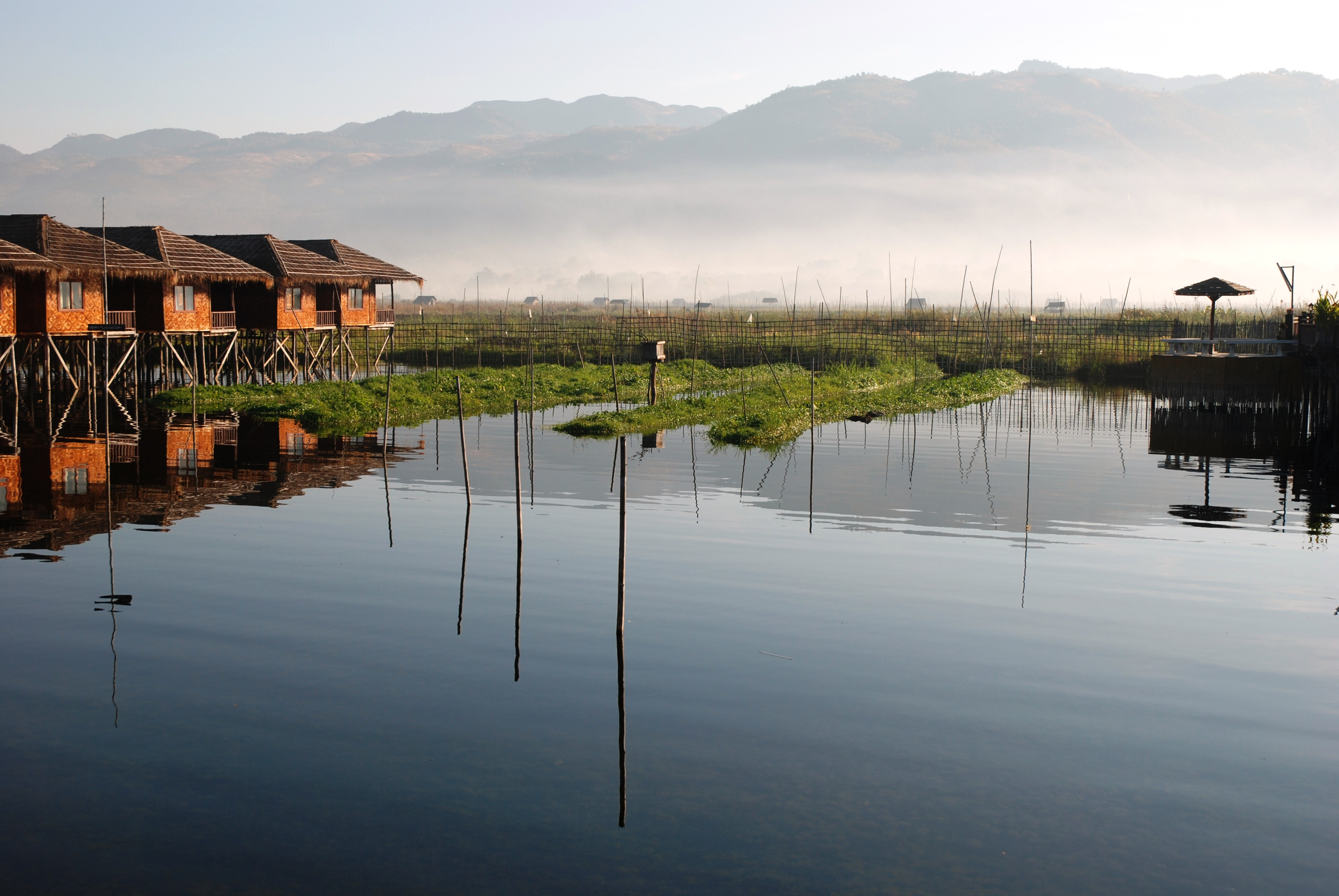 Inle Lake, Burma – Paradise Resort